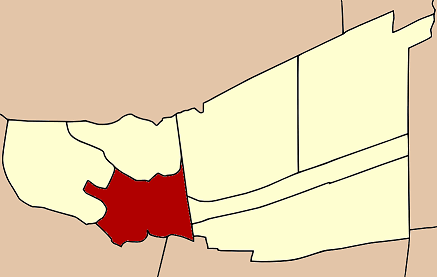 Map of Pathum Thani province, Thailand, highlighting Amphoe Mueang Pathum Thani (geocode 1301).